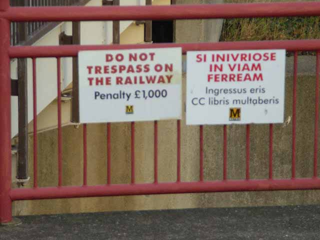 Latin spoken here A number of the signs around Wallsend Metro Station are in Latin, to celebrate its vicinity to the eastern end of Hadrian's Wall.